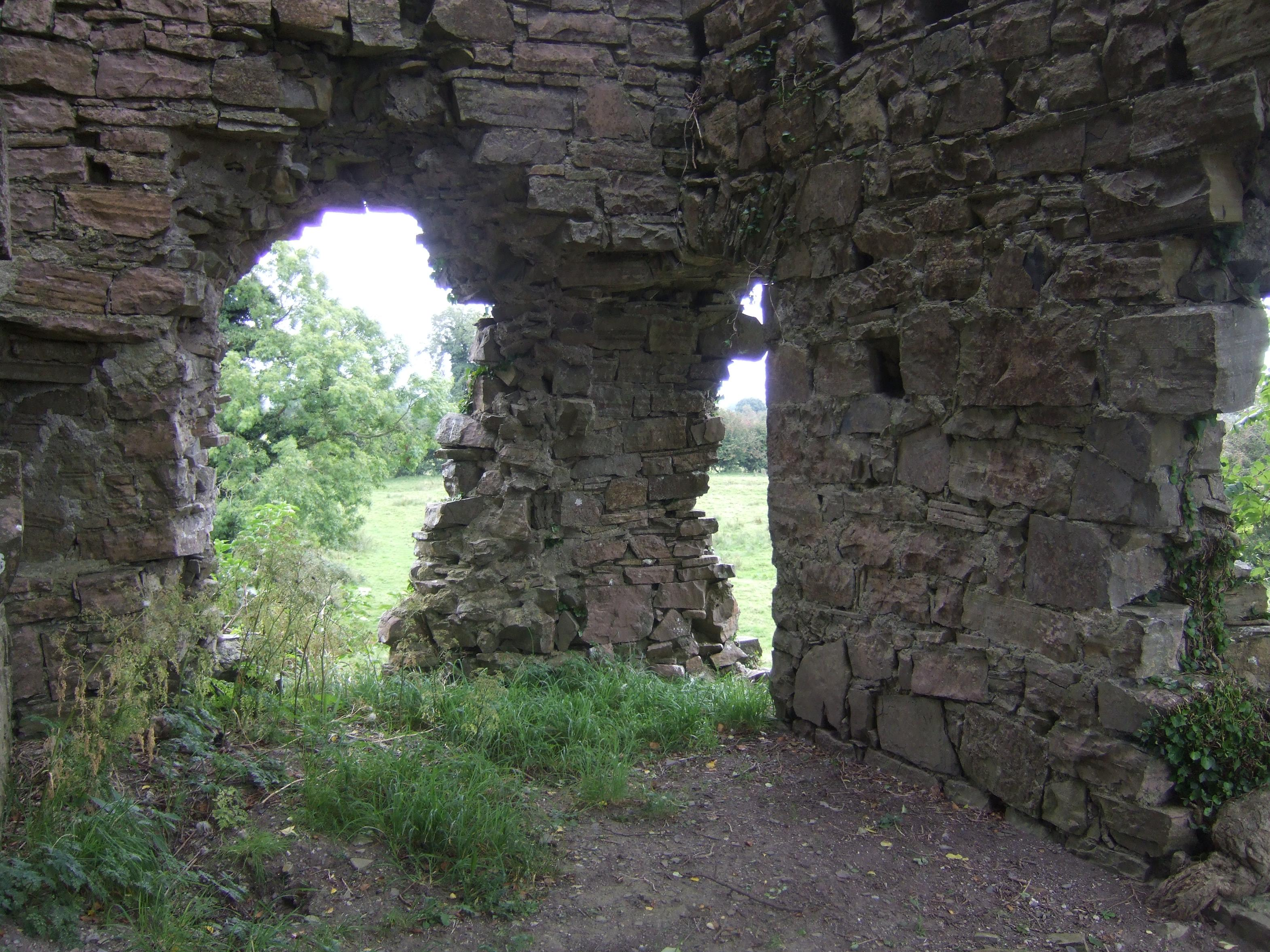 Coolamber Hall-House is Anglo-Norman in date and can be assigned to the early 13th century. Hall-houses consist of two-storey buildings with the entrance doorway on the first floor. The entrance was accessed via an external staircase of wood or stone. The main feature of the building was the large first floor hall which was open up to the roof. The ground floor was accessed via a trapdoor or internal staircase and was probably used as a storage area. Many hall-houses like that at Coolamber have been rebuilt or altered considerably. Summary Coolamber Hall-house consists of a two-storey structure with hour-storey adjoining service tower added-on. It is located on a circular platform c. 4m high and 40m in diameter. A late-medieval church is situated c 400m to the north-west. The platform is enclosed by the remains of a 1.60m thick and .35m high bawn wall that was built in straight sections. There is a small, rectangular, projecting mural tower on the south-west side with an original 3m wide ramped entrance through the south-east side. The condition of the site makes it difficult to determine whether the bawn and mural tower are contemporary with the hall-house and service tower. The hall-house has the remains of a barrel-vault at its northern end at ground floor level. The south end is grass-covered and possibly covers two other barrel-vaults. A doorway in the north-east corner gives access to the tower. A relieving arch, located directly above the barrel-vault of te hall suggests that the service tower may be a later addition to the hall. Directions From Edgeworthstown take the N55 towards Granard. After 400m take a right turn onto the R395 towards Castlepollard. The takes a sharp right after 7km and 3km further on Lismacaffry Village is reached. Take the right turn at the crossroads in the village and after 1km take the first right. Pass a small cemetery before reaching the hall-house. Park sensibly. On Private Property.